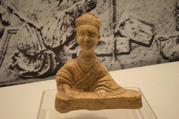 A Chinese Eastern Han Dynasty (25-220 AD) ceramic figurine of a musician playing a guqin, from the Pengshan Tomb of Sichuan.